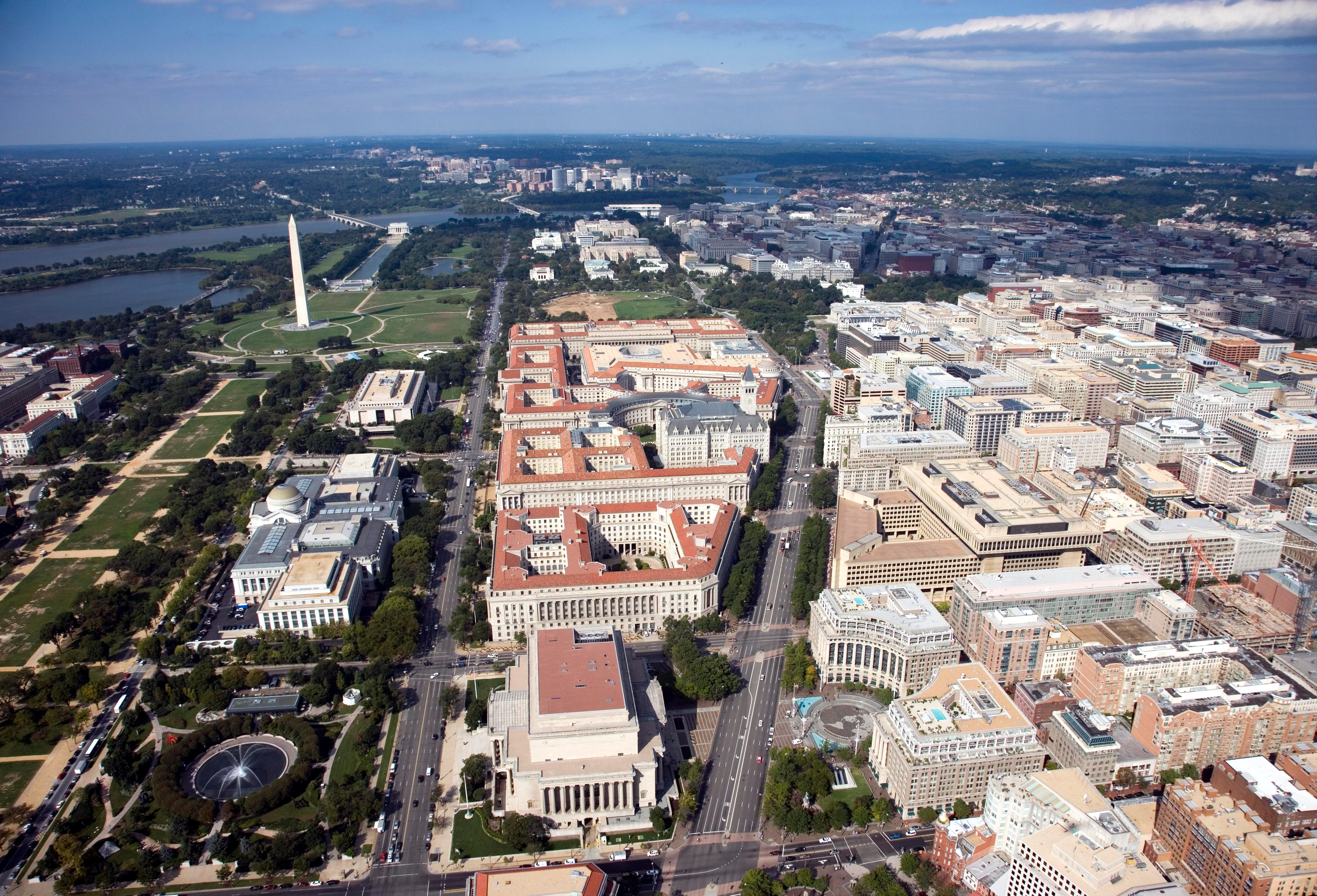 Aerial view of Pennsylvania Avenue (center right) and the Federal Triangle (center) – facing west towards Arlington County, Virginia – in Washington, D.C. Visible landmarks include the National Archives Building (center bottom), Constitution Avenue (center left), the National Museum of Natural History (left), and the Washington Monument (upper left), among other sites, located on the National Mall (left).